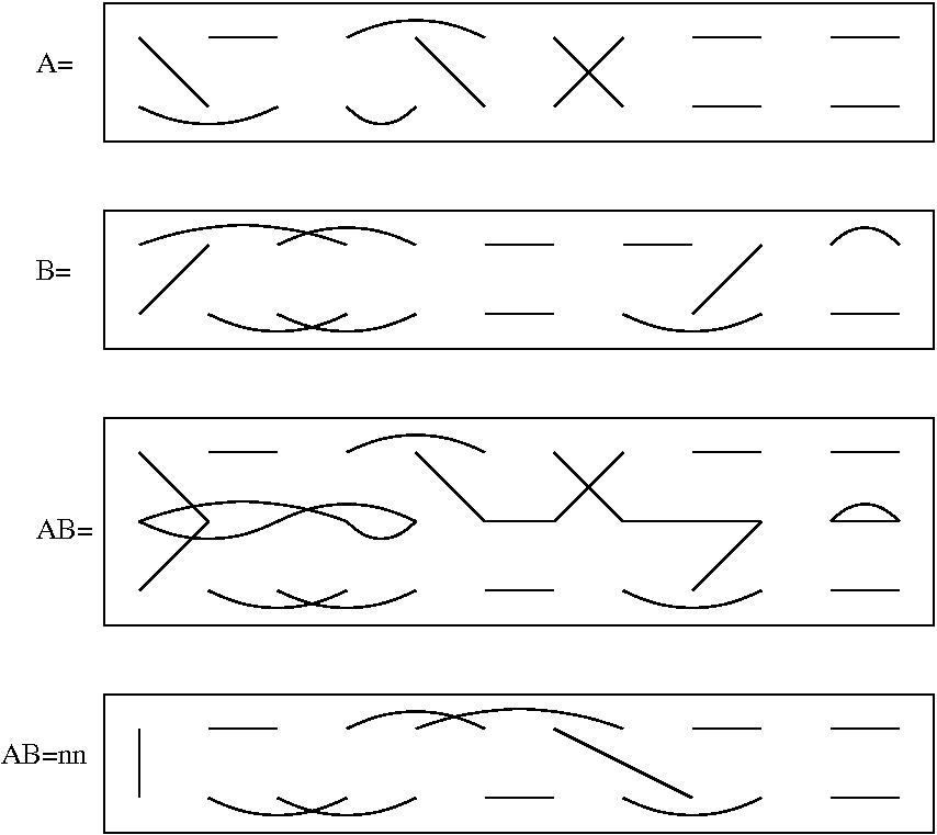 Brauer's original example of the product of elements of the Brauer algebra.